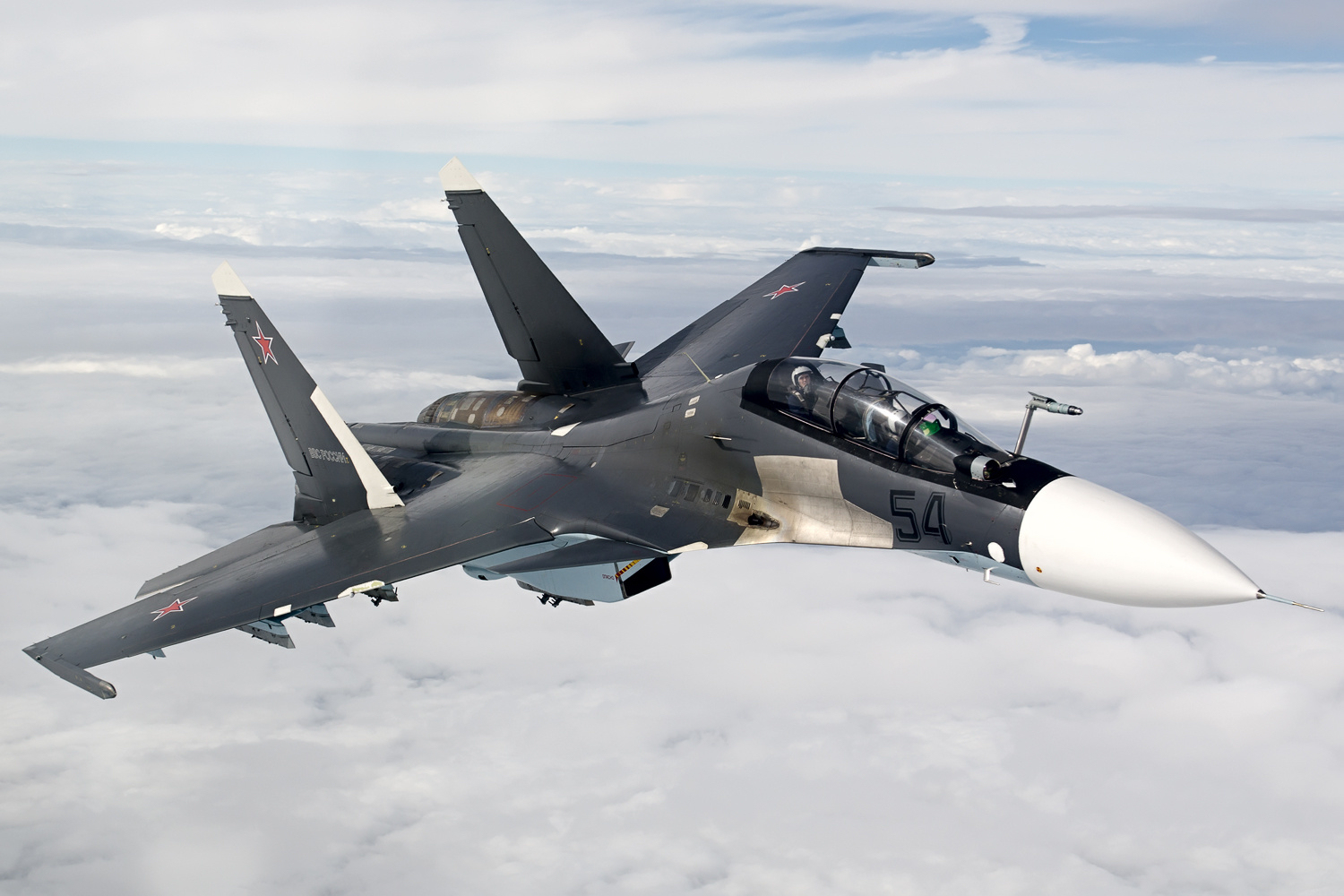 Air-to-air with a Russian Air Force Sukhoi Su-30SM